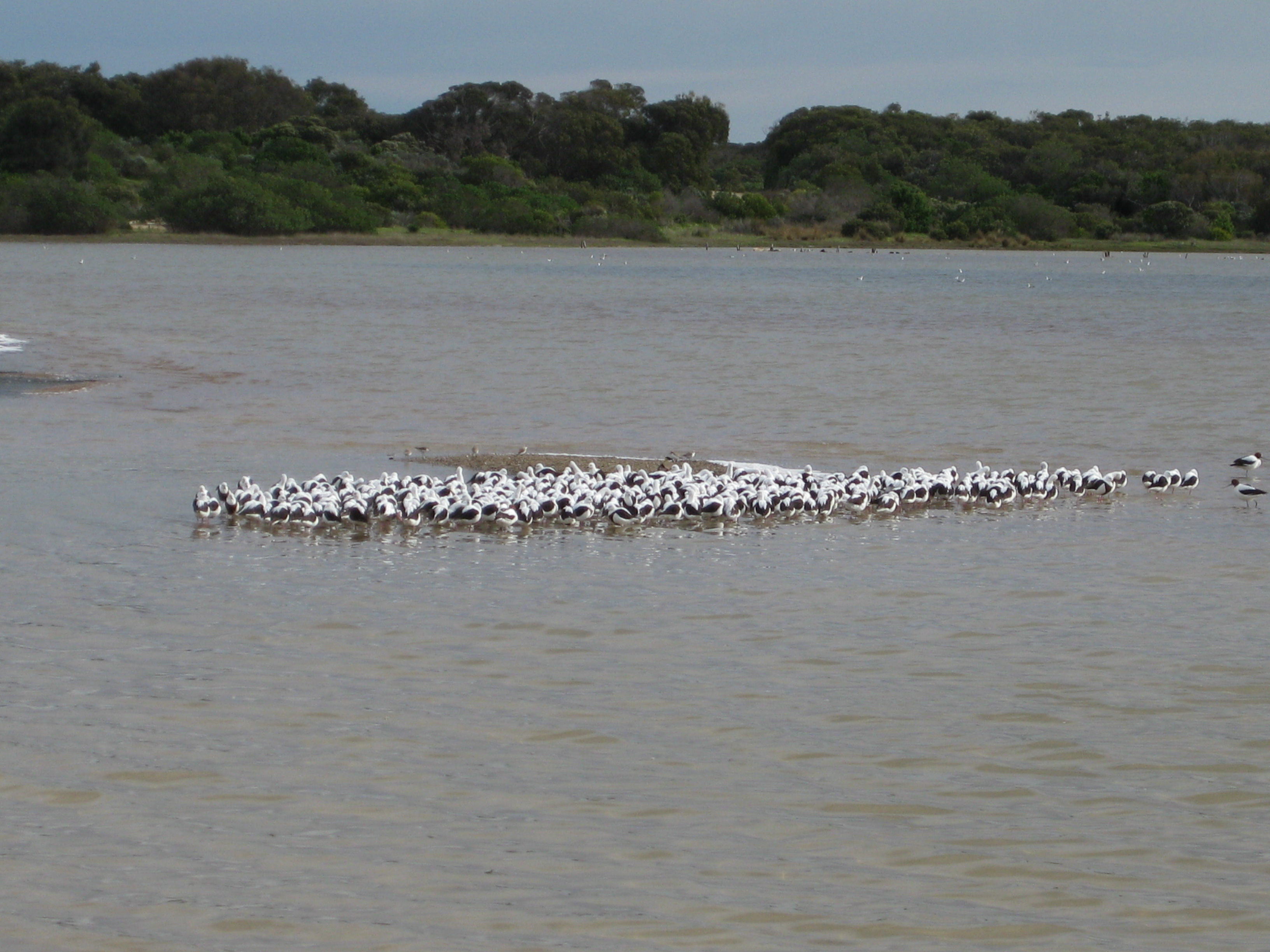 Flock of Banded Stilts on sandflats at the Coorong South Australia